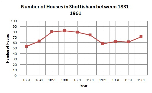 Total Number of Houses in Shottisham, as reported by Vision of Britain statistics between 1831 to 1961